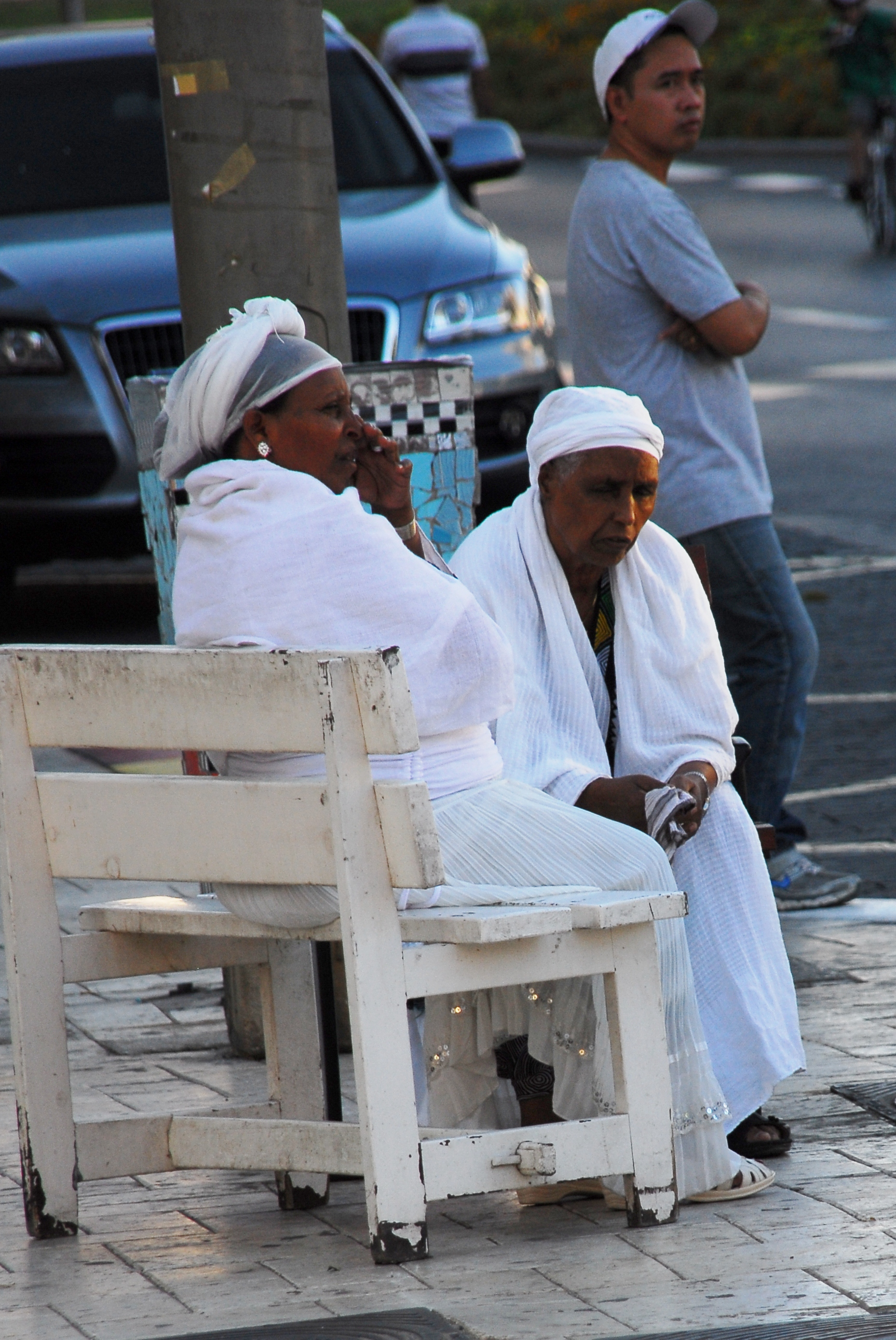 Religion in Israel